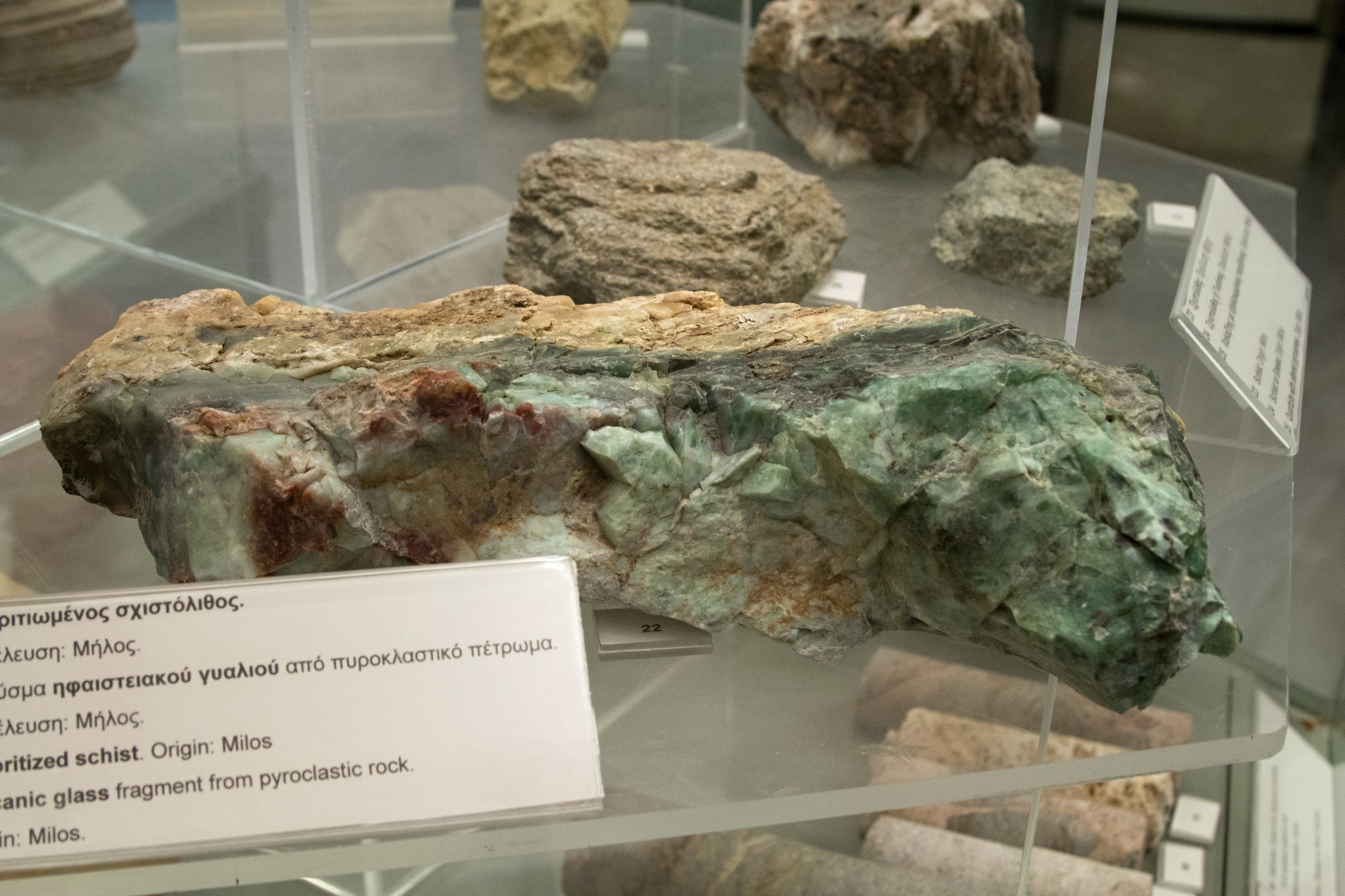 Volcanic glass, fragment from pyrocylastic rock, Milos. Milos Mining Museum.